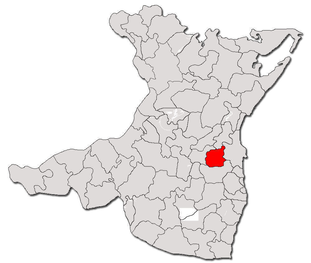 Contour of Valu lui Traian commune